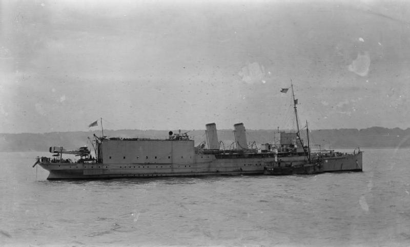 British seaplane carrier HMS ENGADINE at anchor.